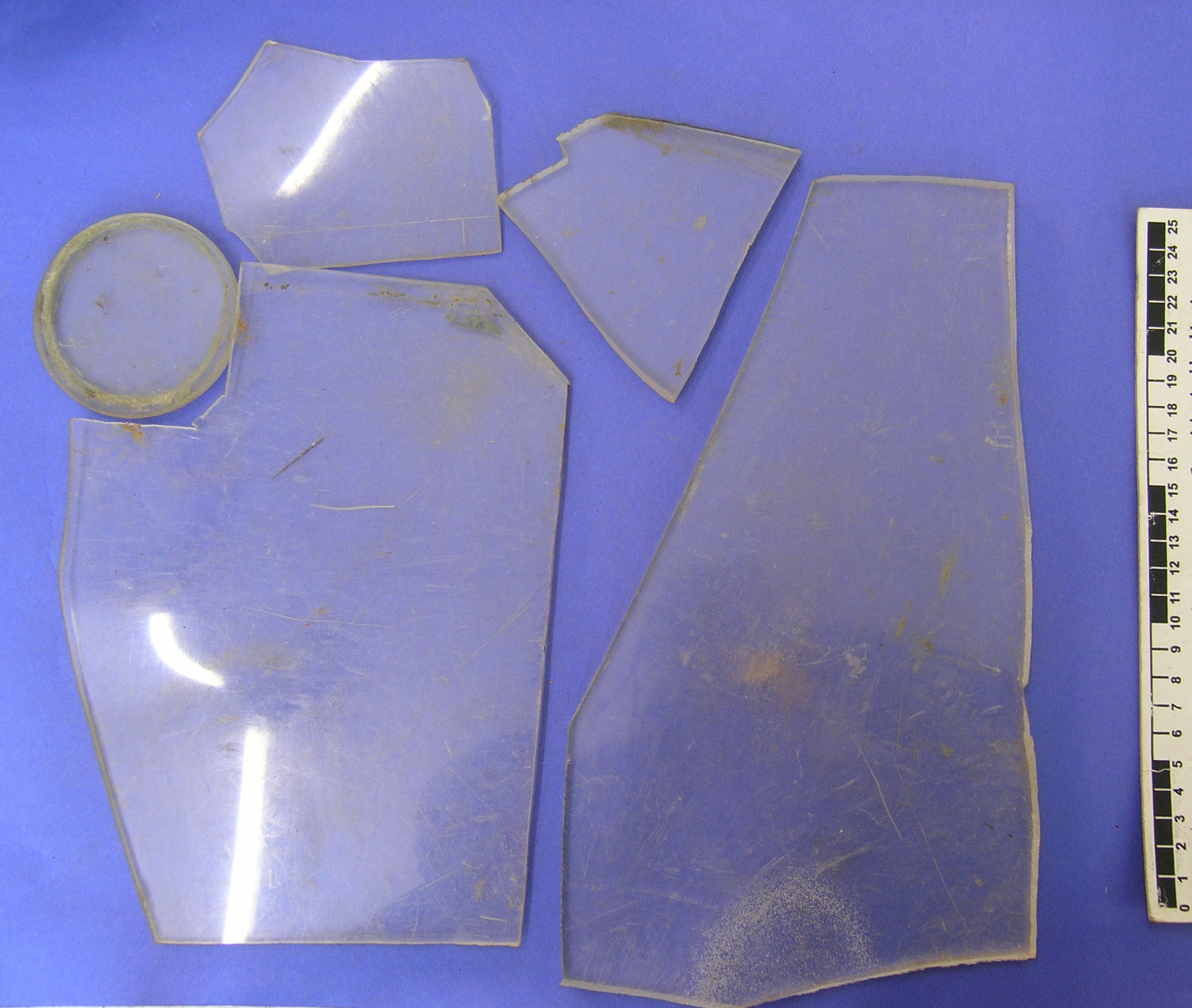 Pieces of perspex from German plane which had been shot down,and subsequently acquired by 423170 Pte Ralph Turner, 21st Infantry Battalion, 2NZEF, for making souvenirs. These formed part of his trench kit, (see 2007.10.1).